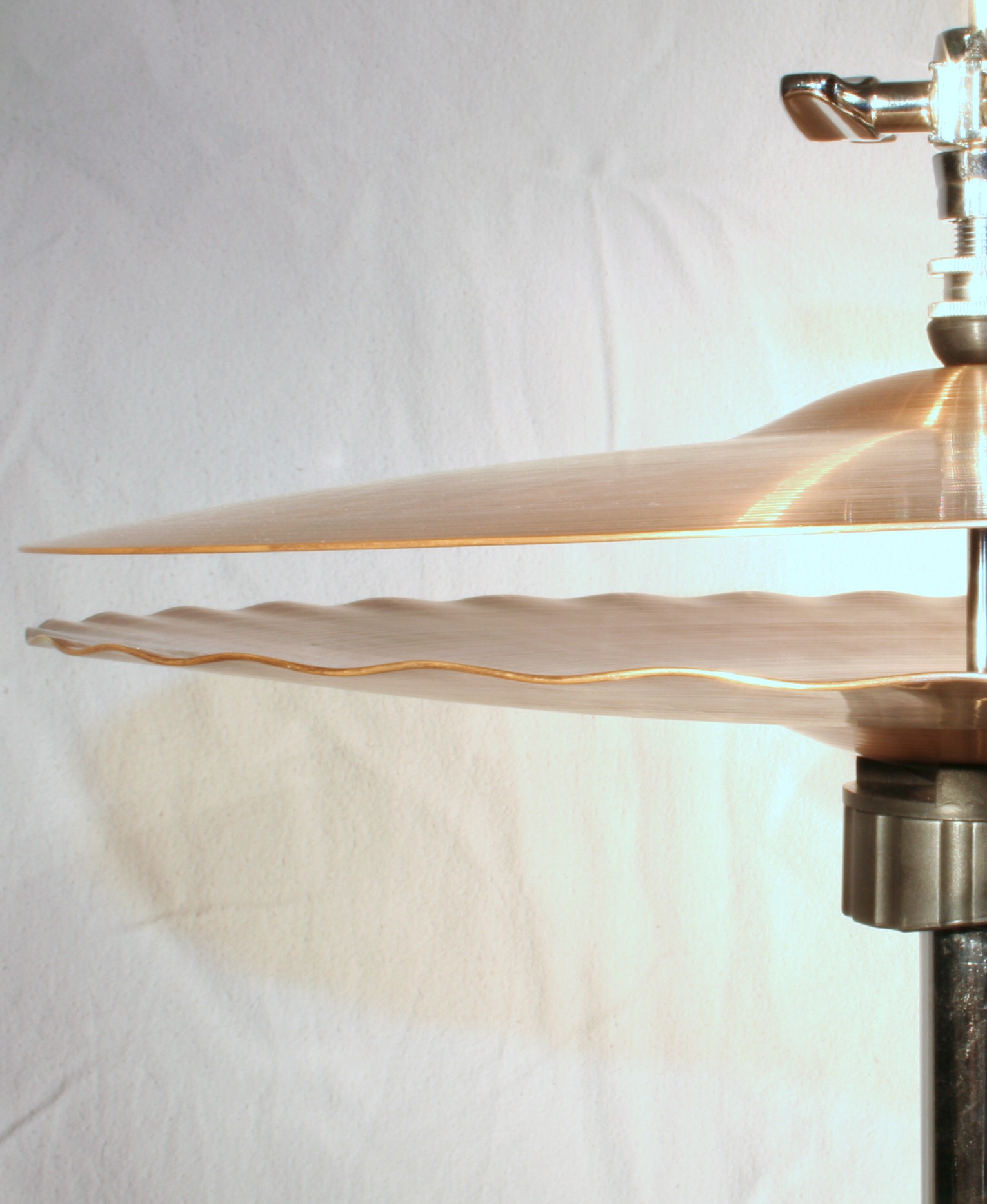 Paiste 2002 HiHat "Sound-Edge" (14 inches) on "Pearl H2000 Eliminator"